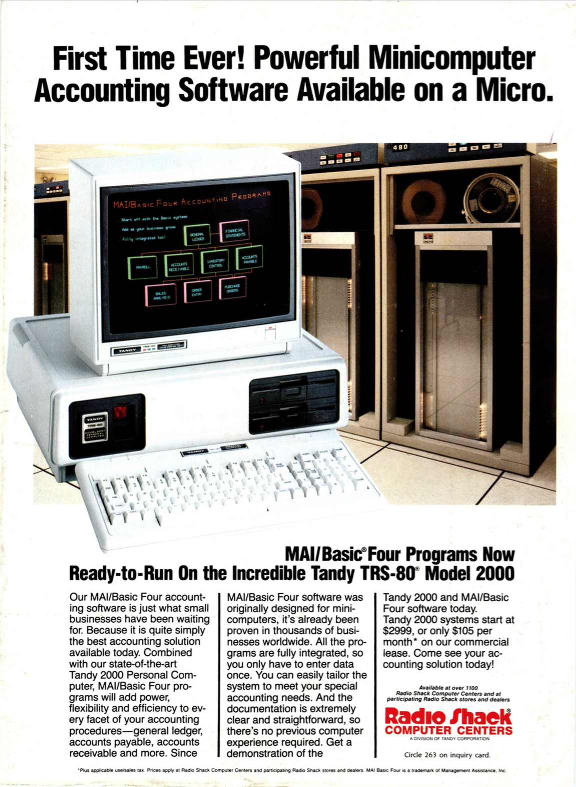 Tandy 2000 (Tandy TRS-80 Model 2000) ad in BYTE Magazine, July 1984, co-marketing MAI/Basic Four software